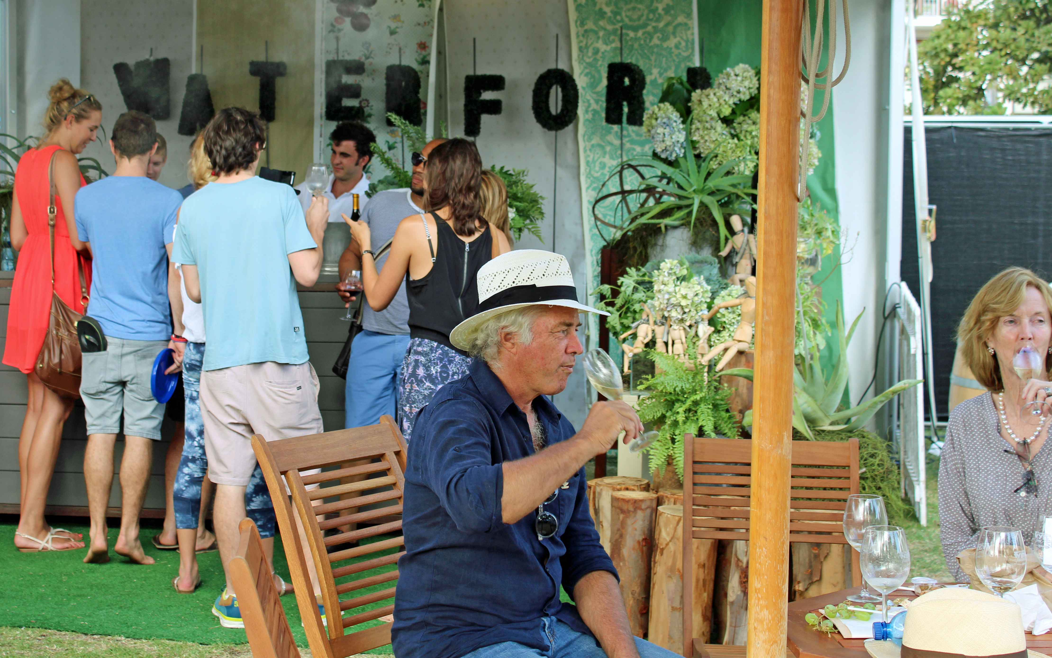 Kevin Arnold, Waterford stall, Stellenbosch Wine Festival Wine Expo 2014 on the Braak